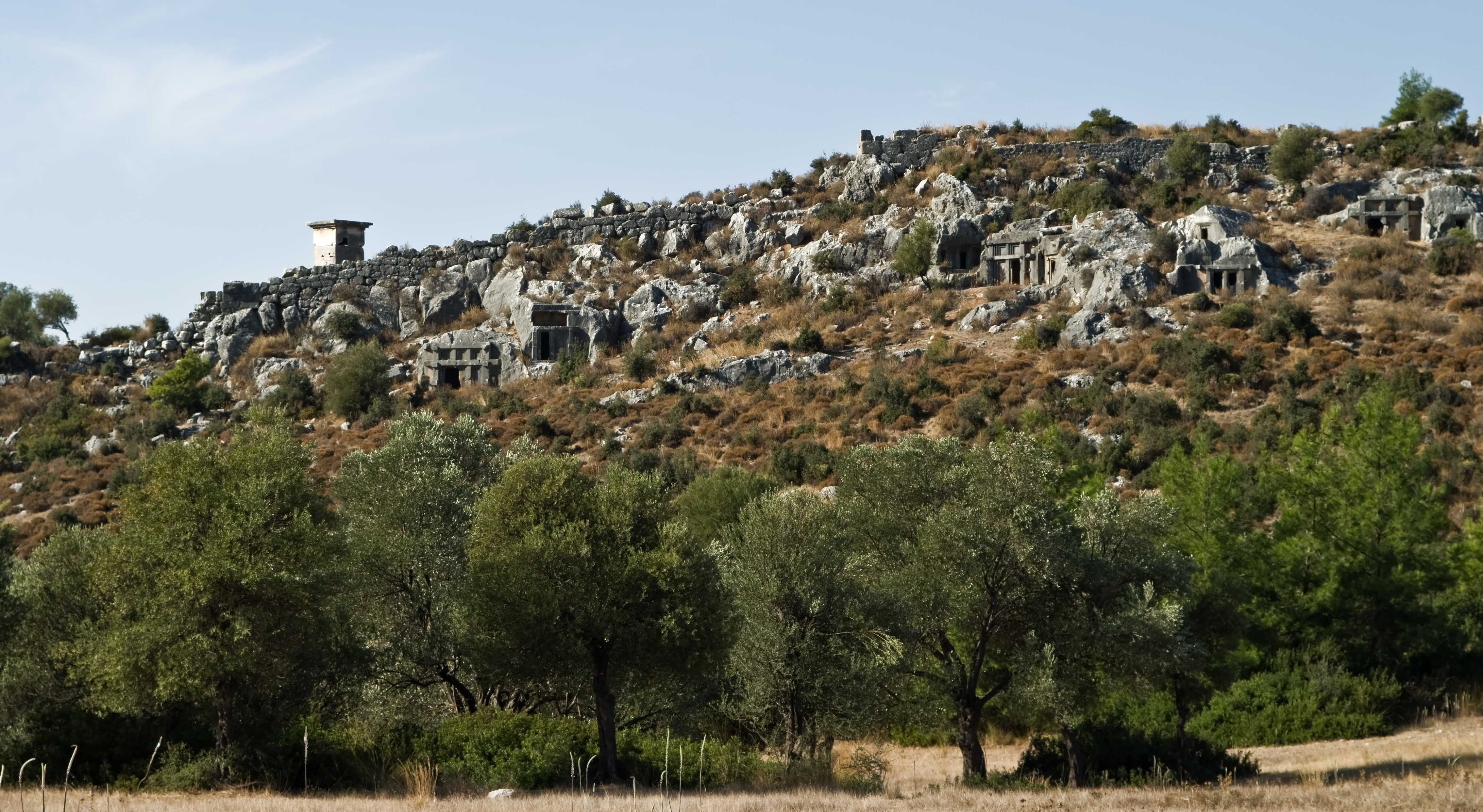 Lycian tombs in Xanthos, Turkey.